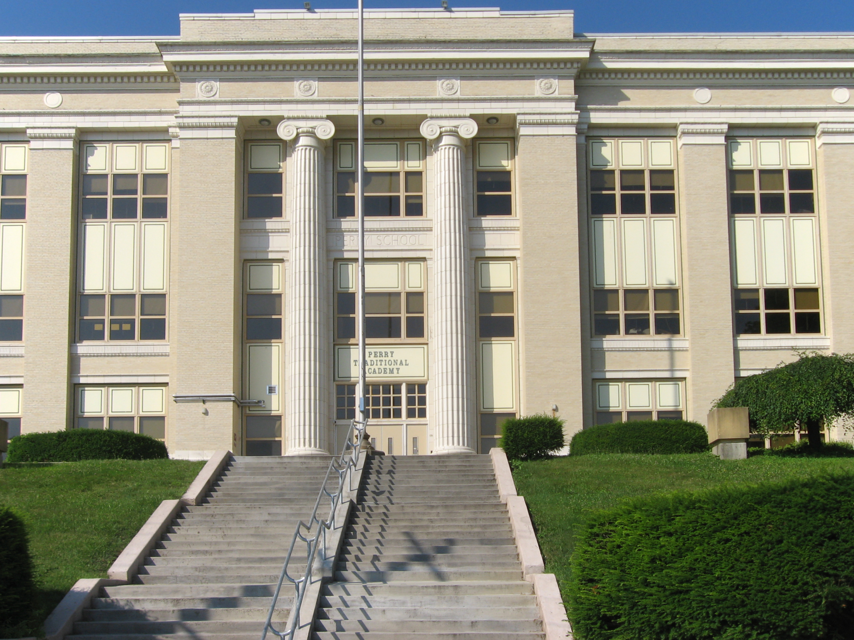 Front of the Perry High School, located at the intersection of Perrysville Avenue (U.S. Route 19) and Semicir Street in the Perry North neighborhood of Pittsburgh, Pennsylvania, United States. Built in 1899, it is listed on the National Register of Historic Places.